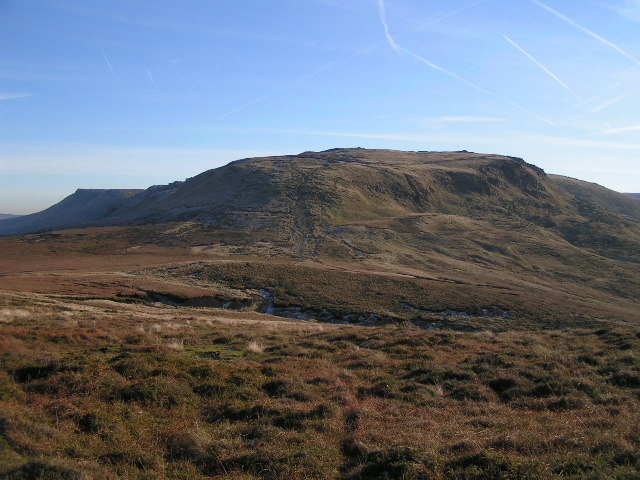 Kinder Scout (northwestern end) Taken from just outside the square, looking southeast. The Pennine Way leaves the Kinder plateau via this ridge, which has been stepped to minimise erosion. The Snake Path runs left to right across this picture, crossing the col from William Clough into the Ashop valley.